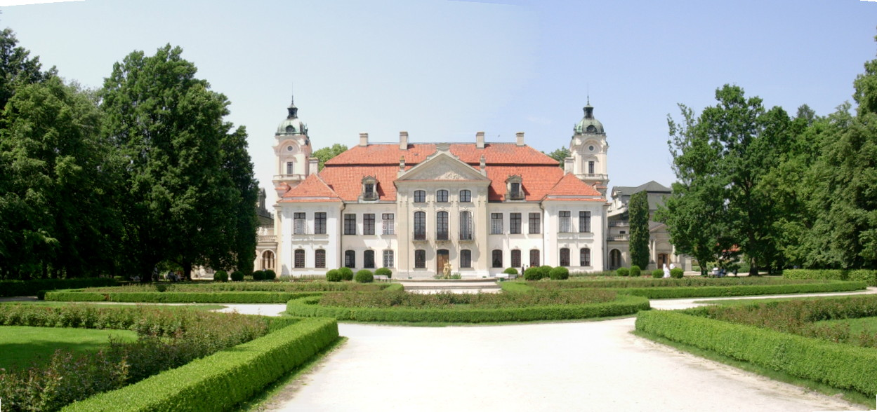 Back of the Palace and Museum of the aristocratic family Zamoyski in Kozłówka, near Lublin, eastern Poland